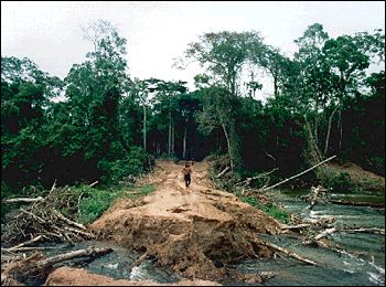 Deforestation in Brazil taken from a NASA related study